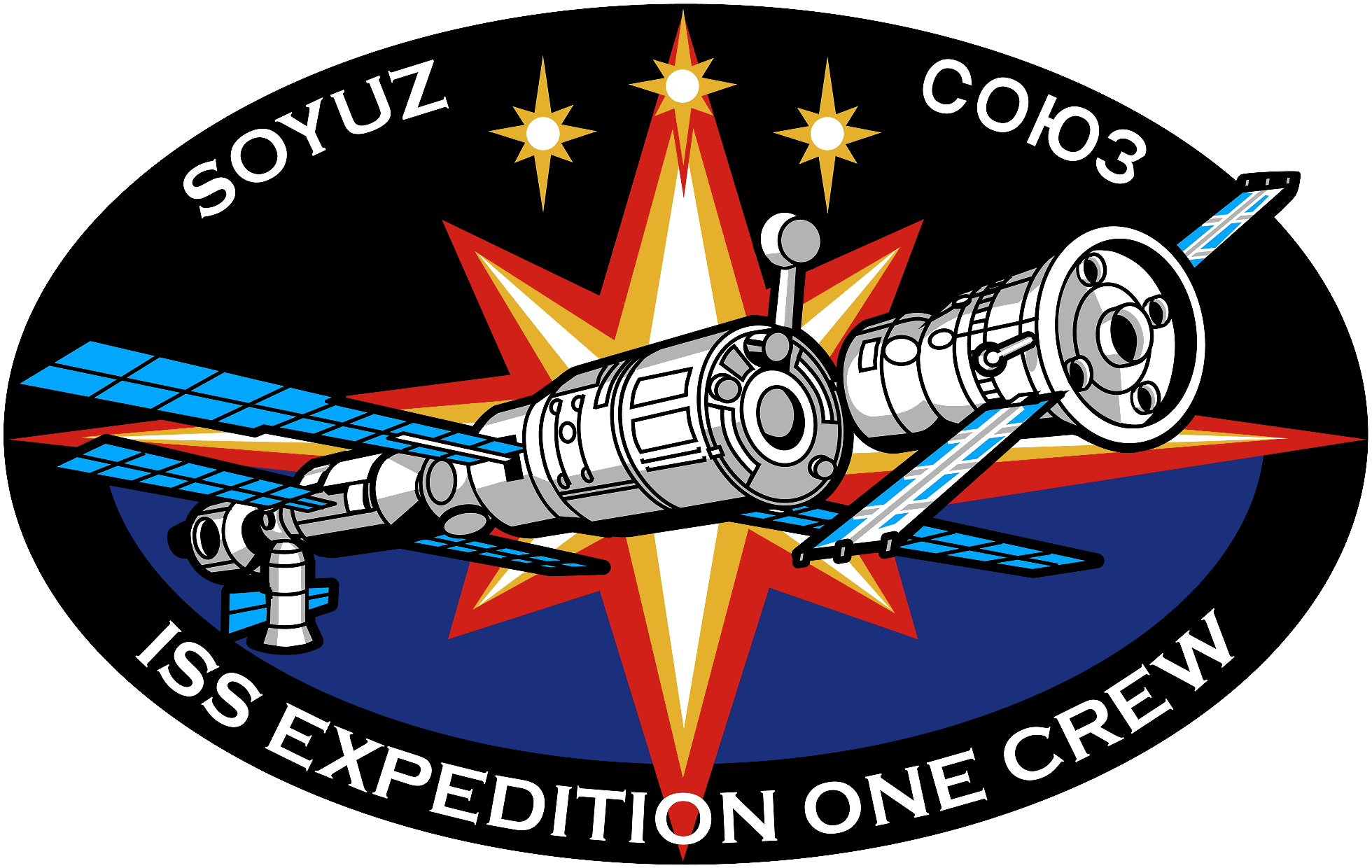 Patch of the Soyuz TM-31 mission to the International Space Station.